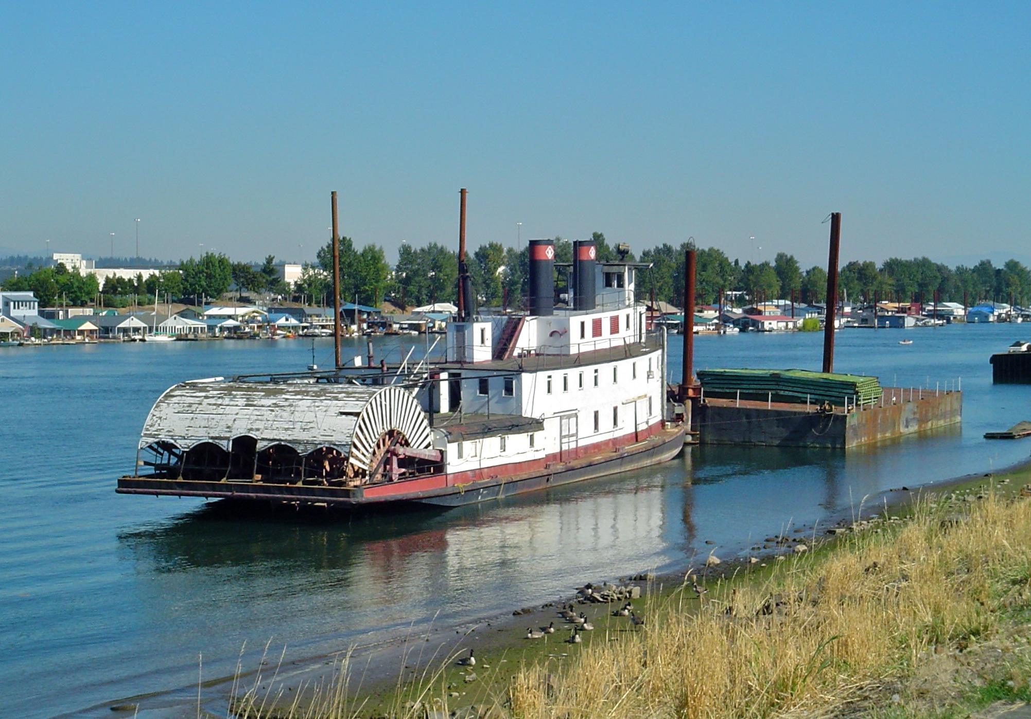 The sternwheeler Jean, a 1938-built steamboat that is no longer operational, moored in the North Portland Harbor (also known as Oregon Slough), in Portland, Oregon. Its twin paddle wheels were still in place at the time of this photo, but were later removed.